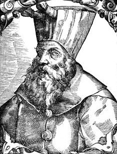 Portrait of Al-Ashraf Qansuh al-Ghawri, Mamluk Sultan of Egypt.